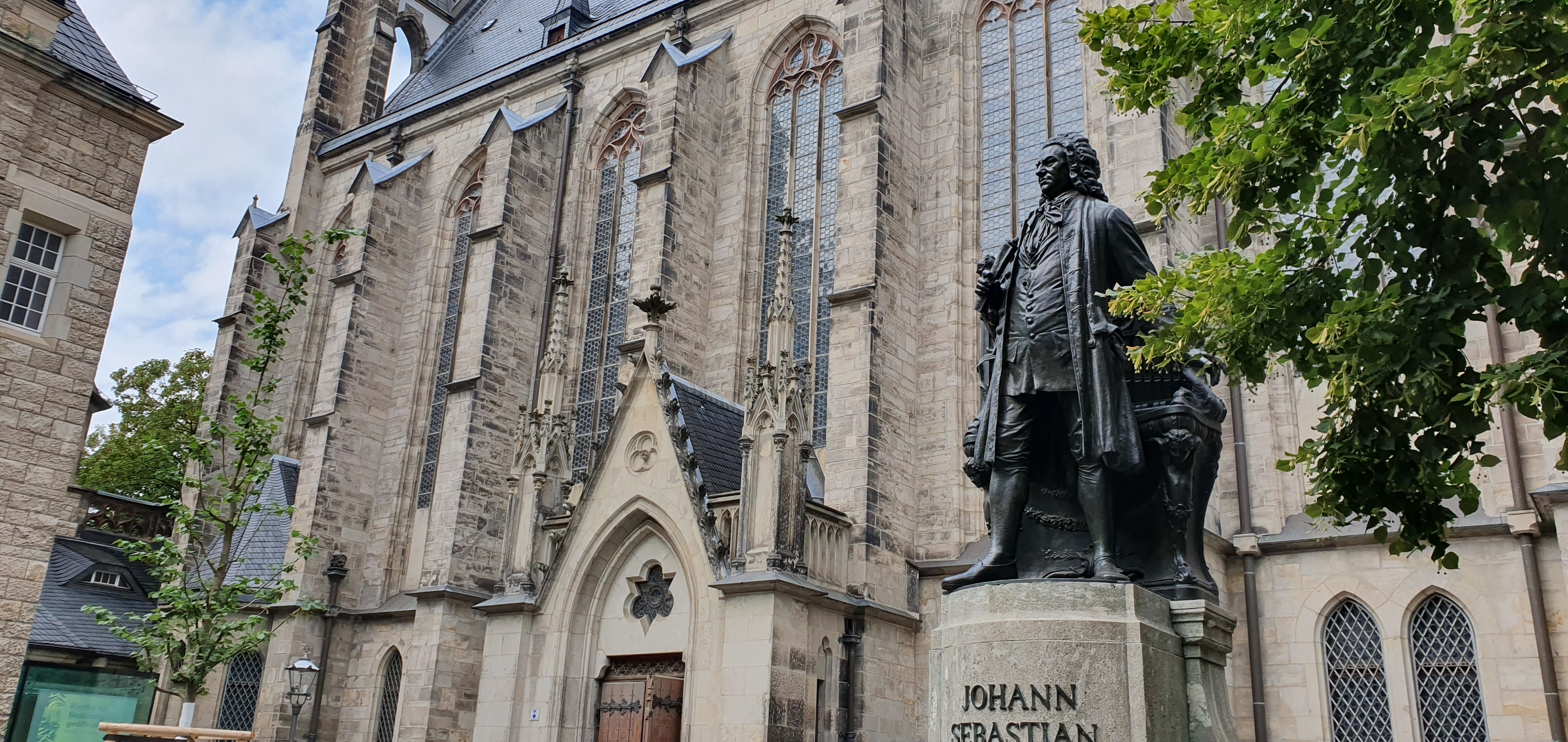 Statue of Johann Sebastian Bach at the St. Thomas Church in Leipzig